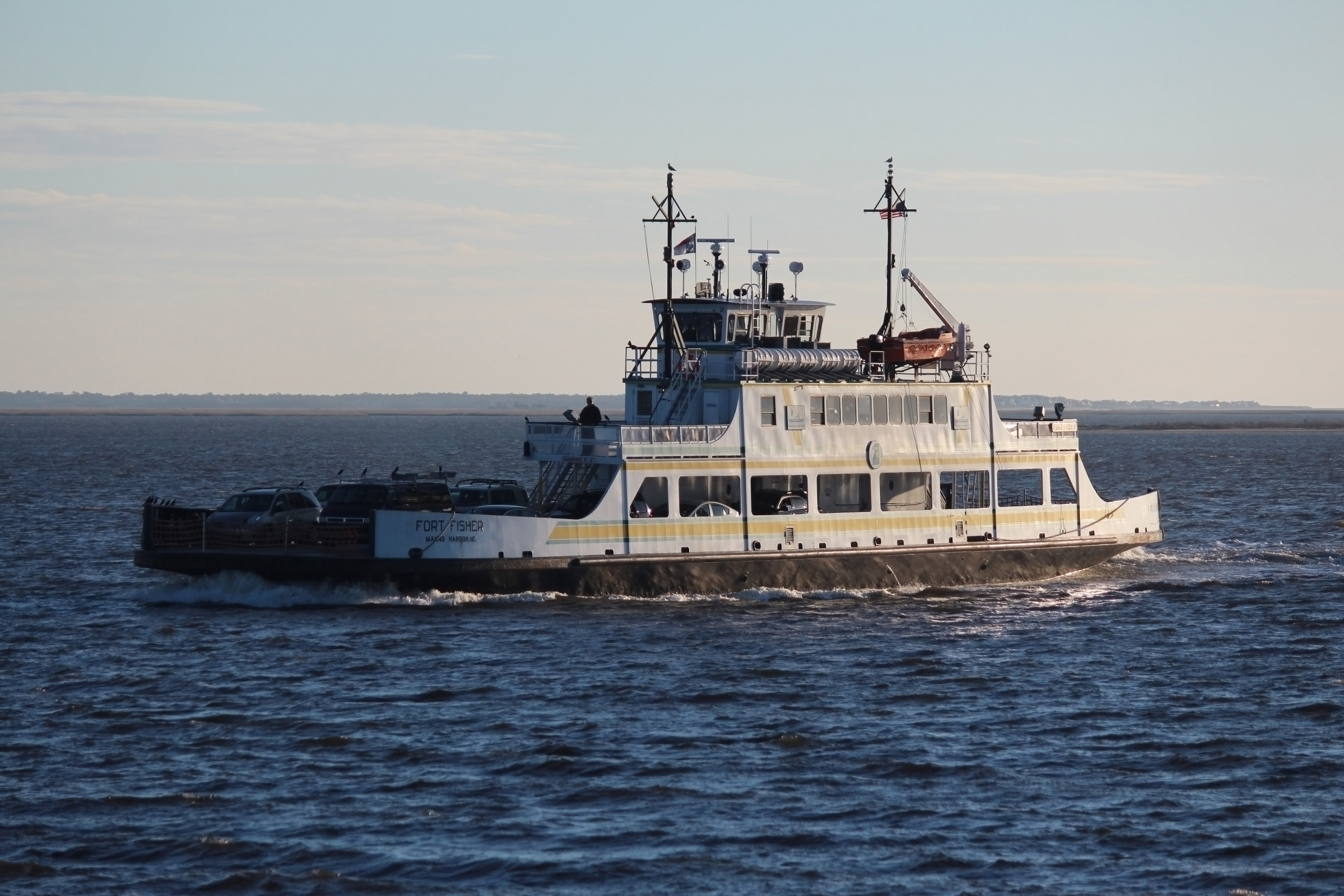 The "Fort Fisher" a North Carolina DOT ferry serving the Wilmington, NC to Southport, NC ferry route in February 2017. In the photo the ferry is travelling from Southport to Fort Fisher.